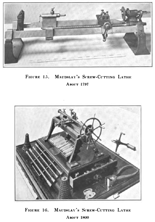 Photos of Henry Maudslay's famous screw-cutting lathes of circa 1797 and 1800. Although Maudslay did not invent any of the machine elements that went into the design, and although he did not invent the first screw-cutting lathe, he was the first person who made famous the winning form factor (bringing together the lathe, leadscrew, slide rest, and change gears, with practical inter-relationships.